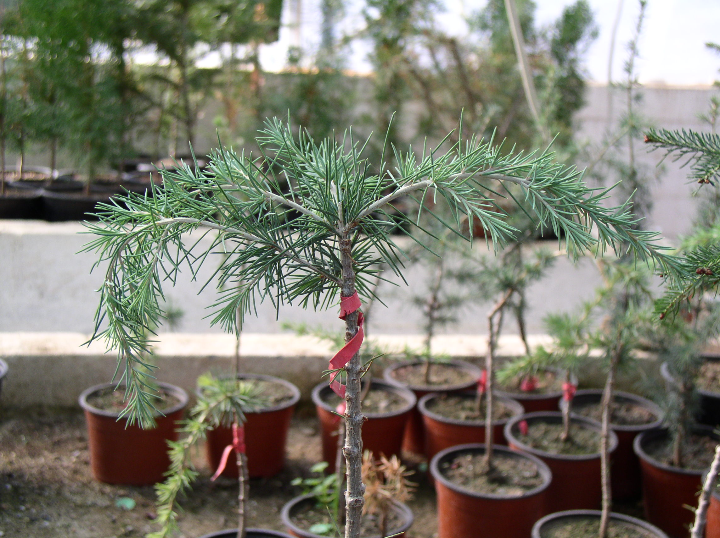 Cedrus atlantica 'Pendula' grafting, Manojlovic nursery, Serbia (author: Mihailo Grbic)